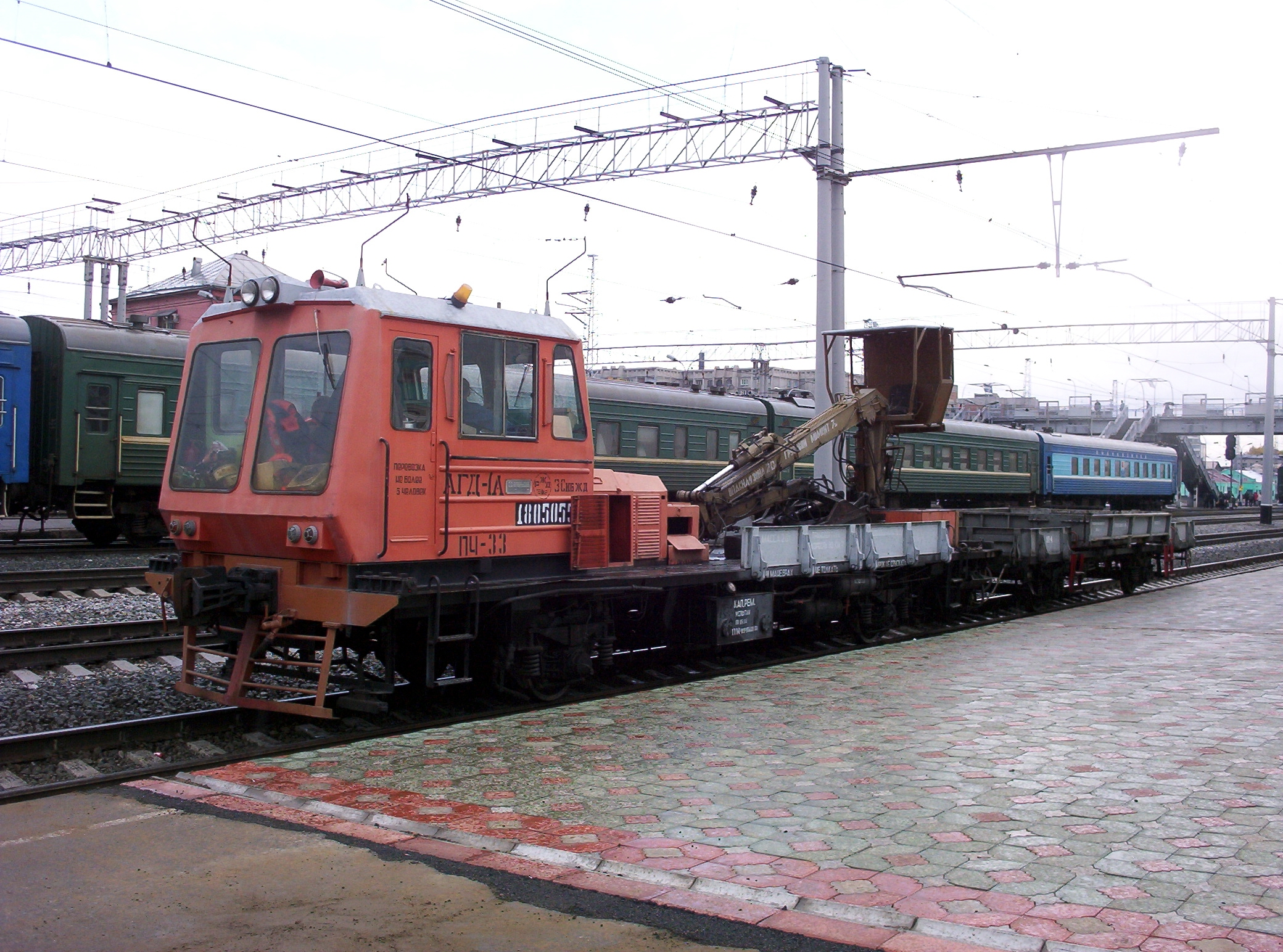 Cargo diesel motor trolley AGD-1A